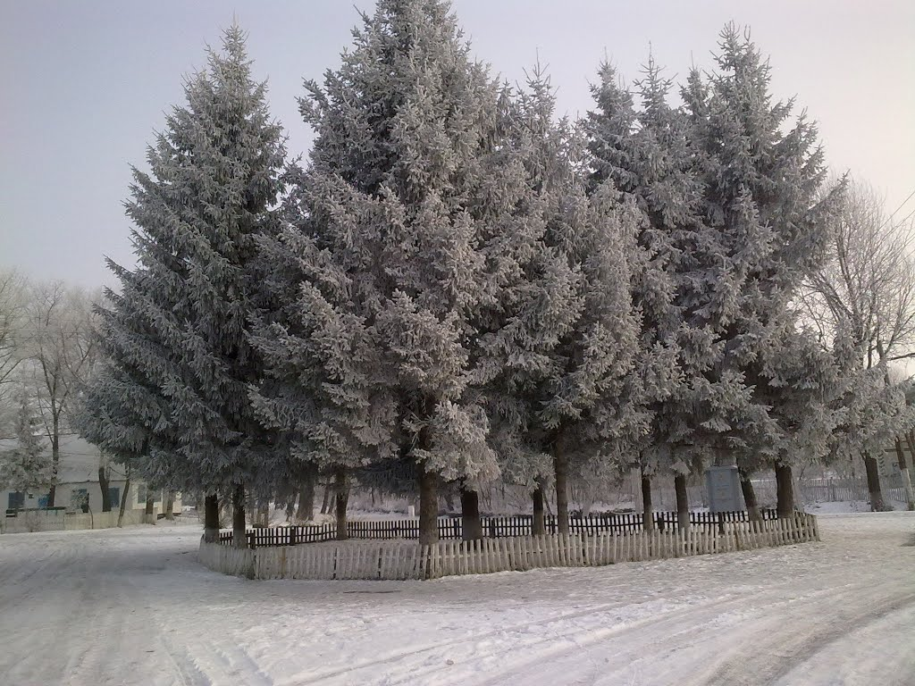 Christmass trees in centre of M.P.